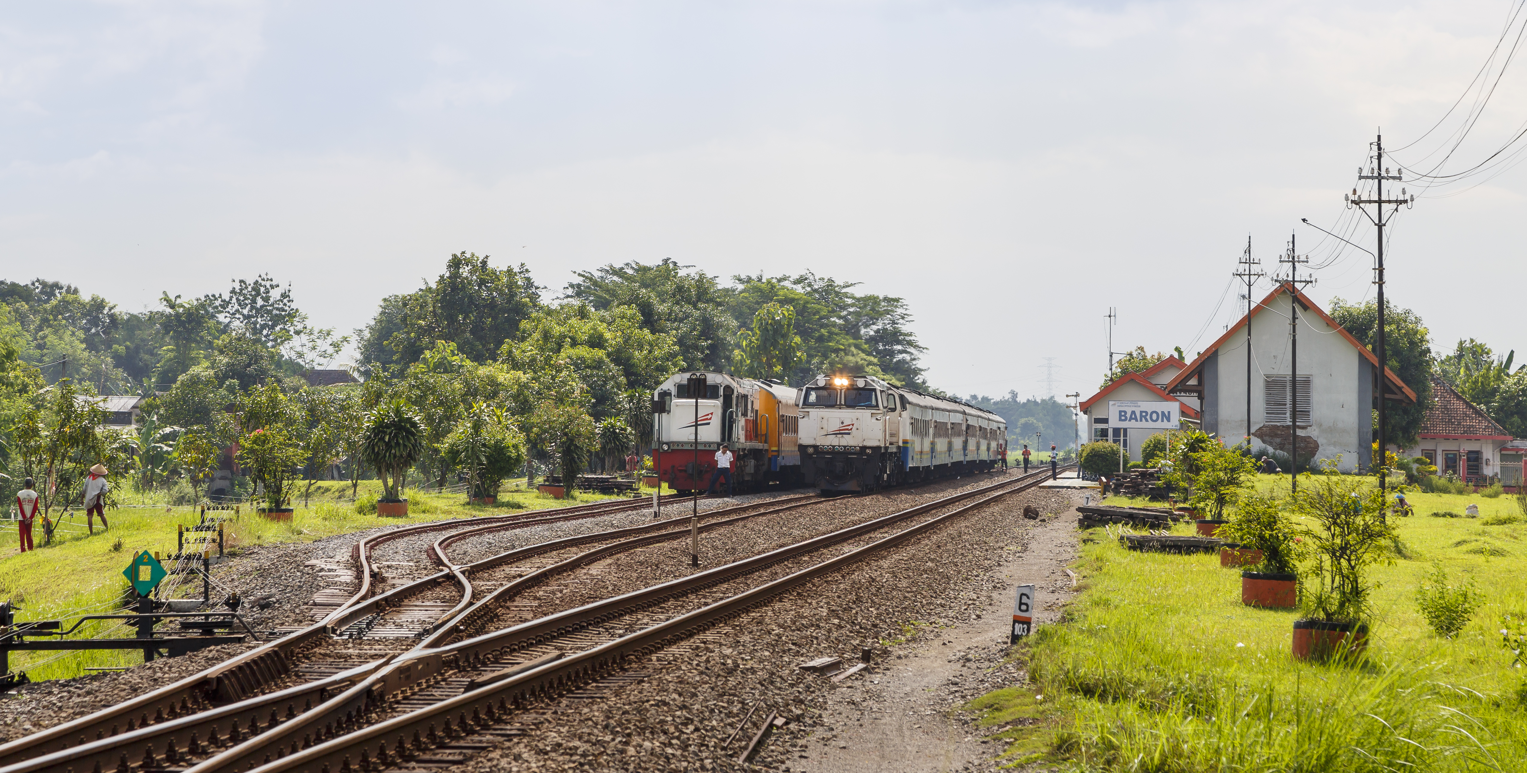 Baron, Nganjuk, Java Timur, Indonesia: Baron Railway Station.